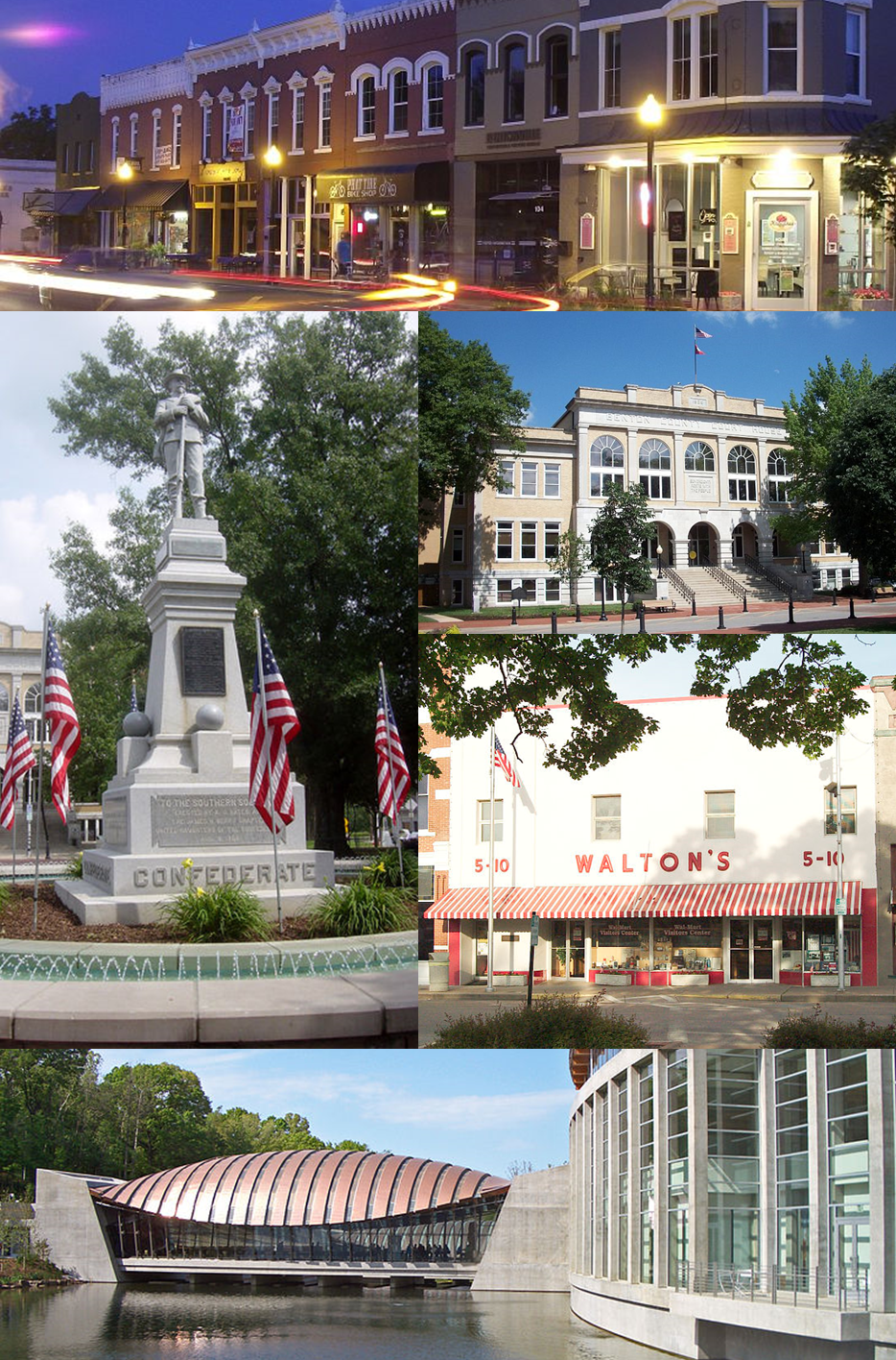 Collage of Bentonville, Arkansas